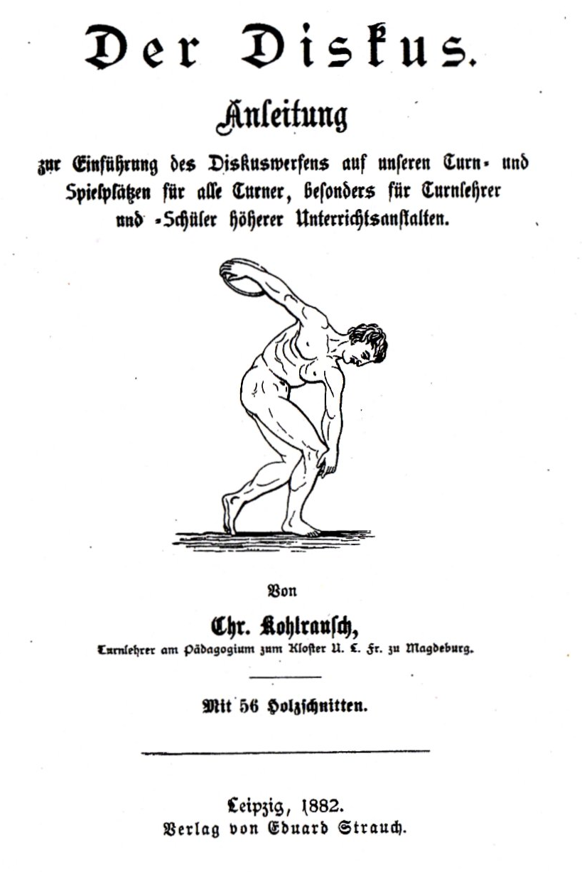 Title page of the book introducing the re-developed discus in Germany in 1882, by Christian Georg Kohlrausch, 1851-1934